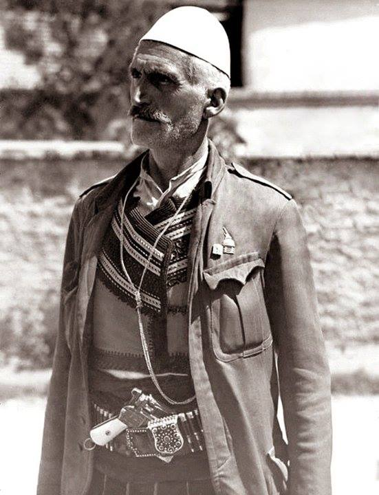 Portrait of Prek Cali